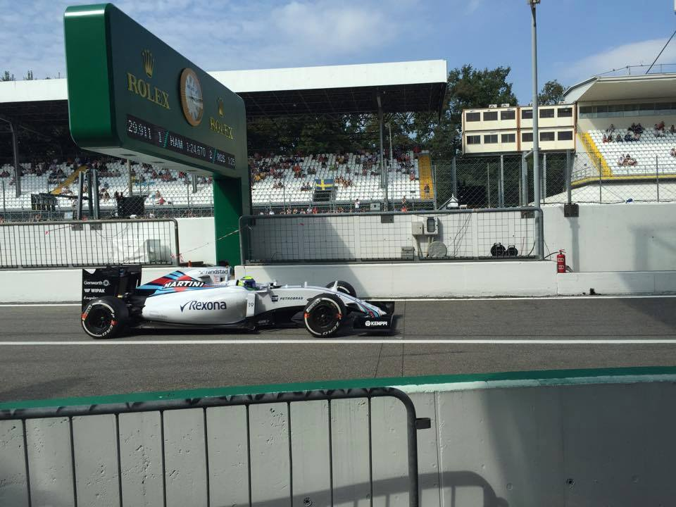 Massa exiting the pits